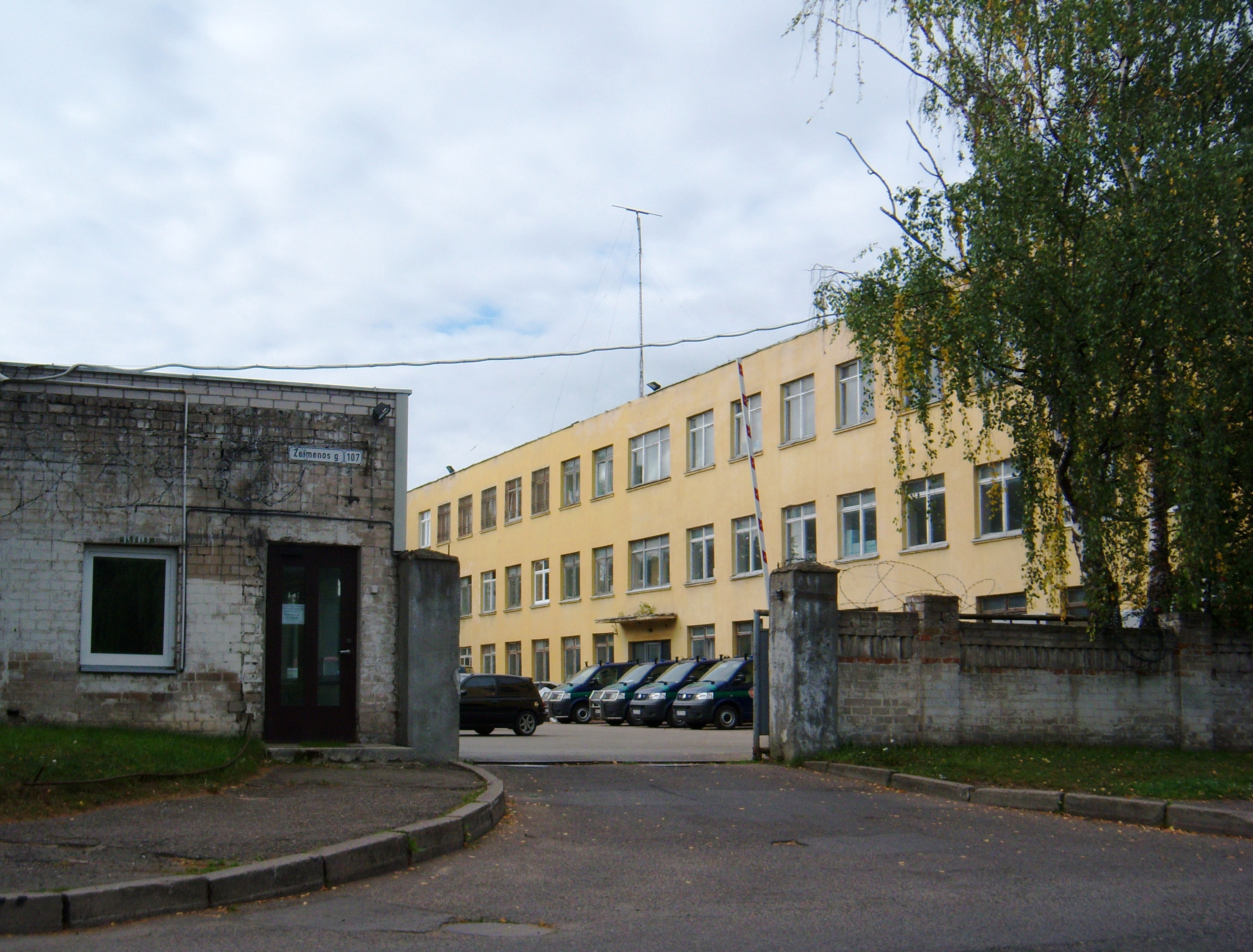 General Povilas Plechavičius Young Soldier School, Kaunas, Lithuania